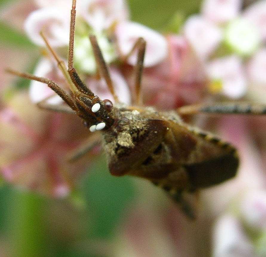 Eggs of tachinid fly (subfamily Phasiinae, possibly Trichopoda pennipes) on Leptoglossus occidentalis. Peace Valley Nature Center, Bucks County, Pennsylvania, USA. 40.3355° N, 75.1783° W.